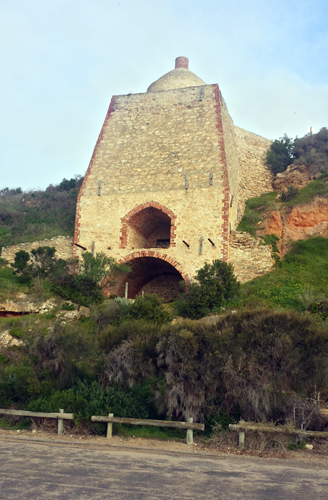 Wool Bay lime kiln. Copyright of this photo attributed to